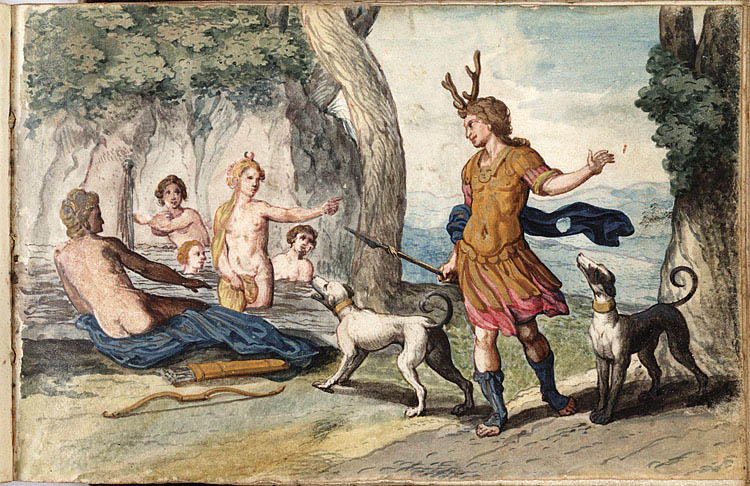 Watercolour and ink drawing from the alba amicorum (friendship books) of Pieter van Harinxma thou Slooten of Friesland, now in the Koninklijke Bibliotheek (National library of the Netherlands)